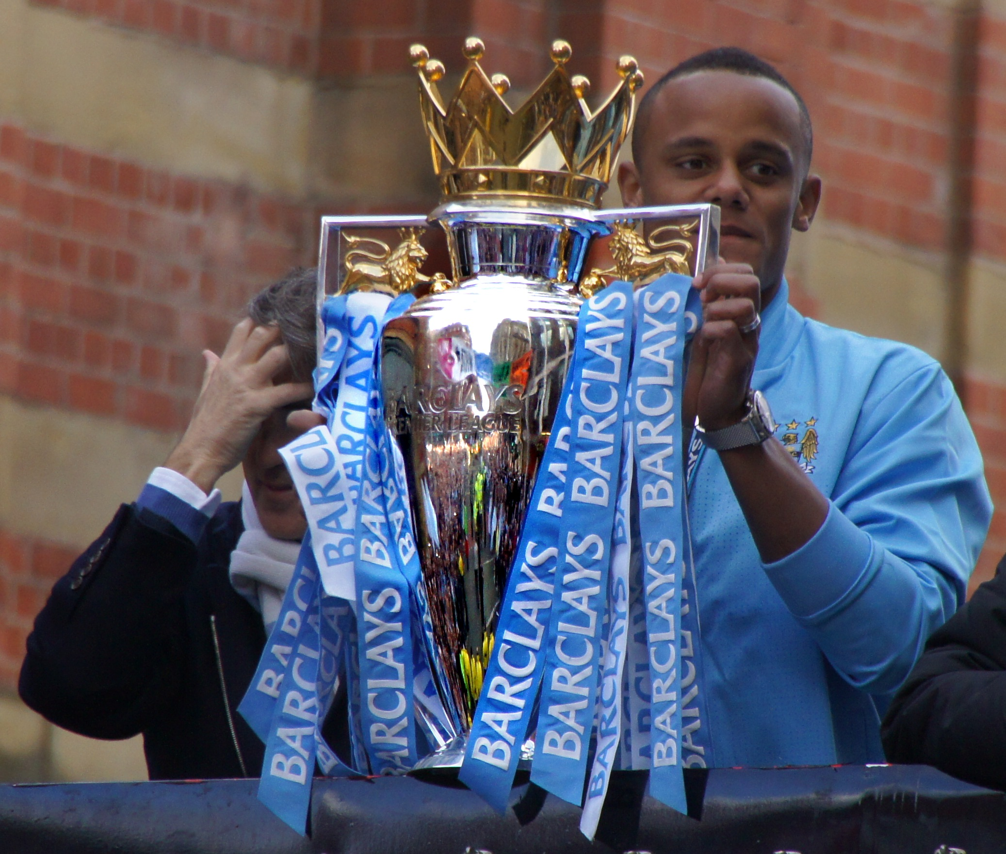 Vincent Kompany, Roberto Mancini in background.